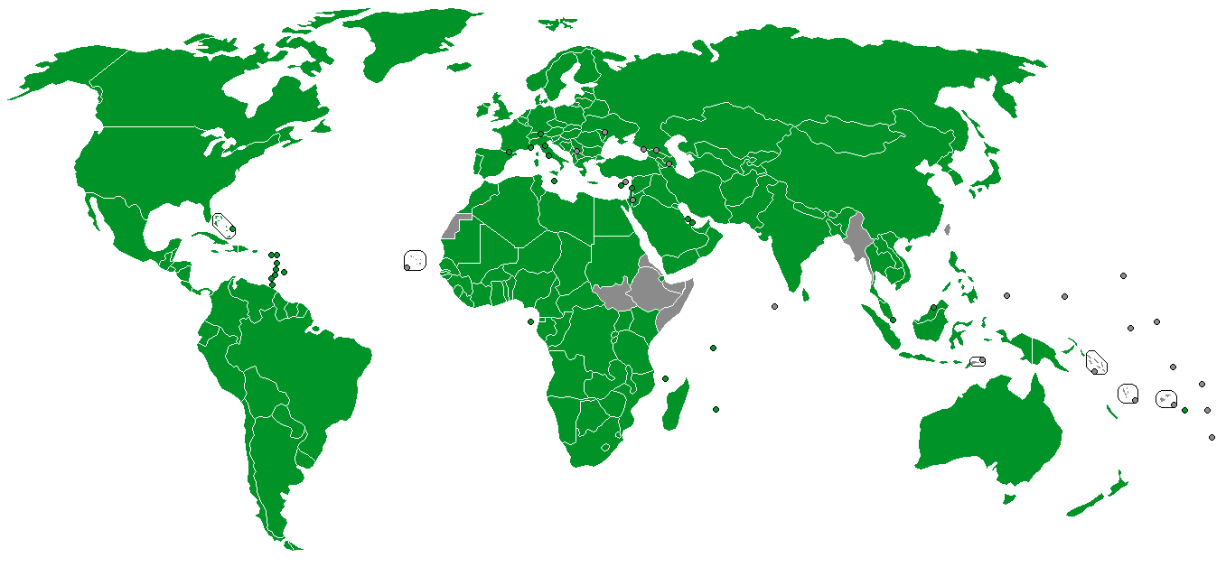 Paris Convention for the Protection of Industrial Property members